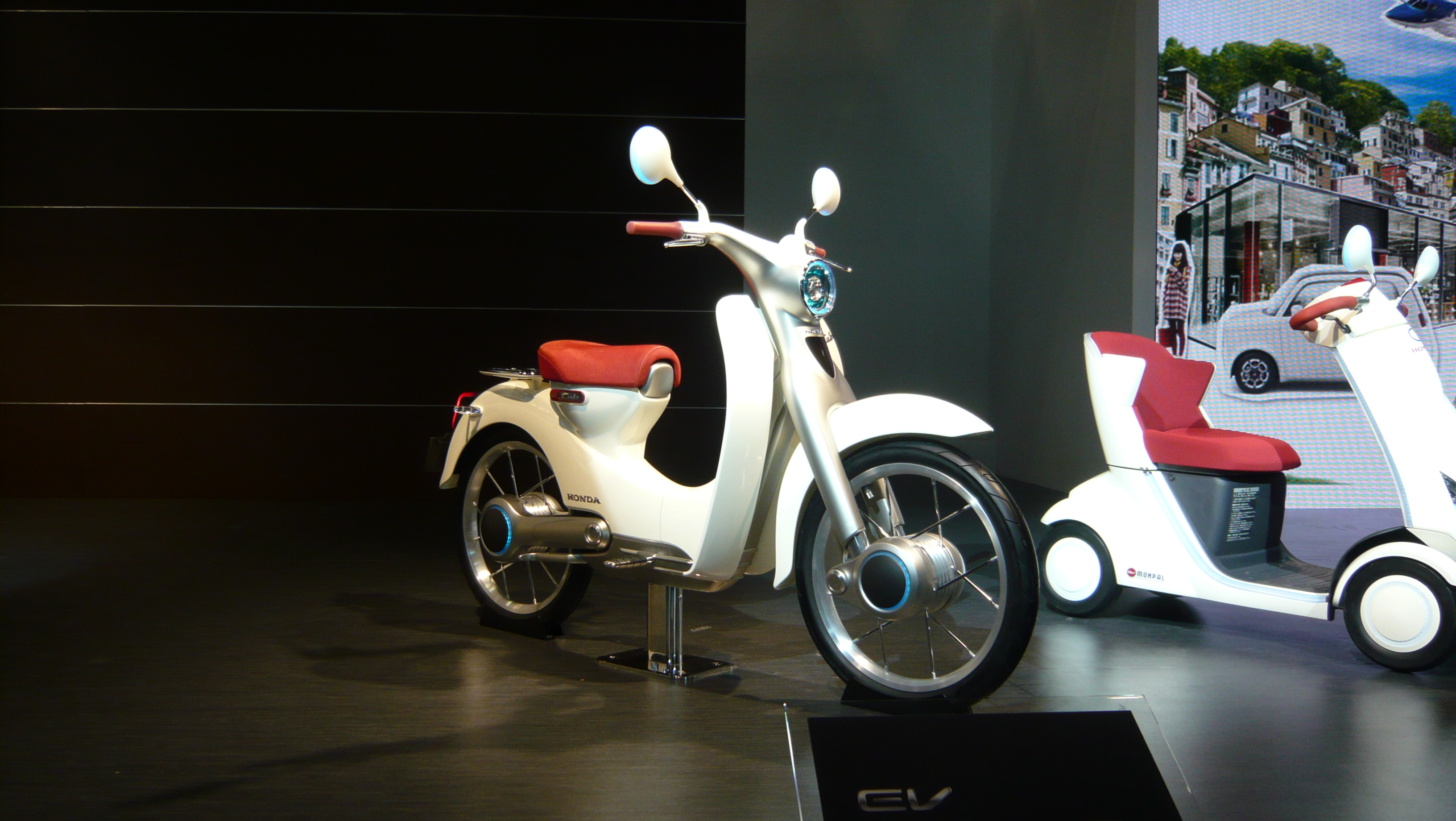 Honda EV-Cub